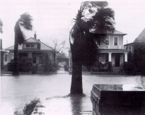 Street flooding in Galveston, Texas during the 1943 Surprise hurricane.